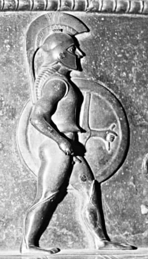 Hoplite, detail of the Vix Krater. Hammered bronze sheet, Laconian influence, ca. 510 BC. From the Vix hoard, now in Châtillon-sur-Seine.